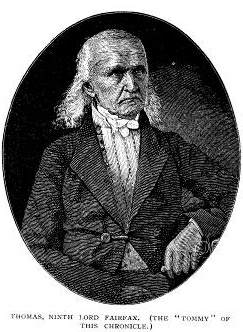 A portrait of Thomas Fairfax, in the article by his Granddaughter, Constance Cary Harrison.